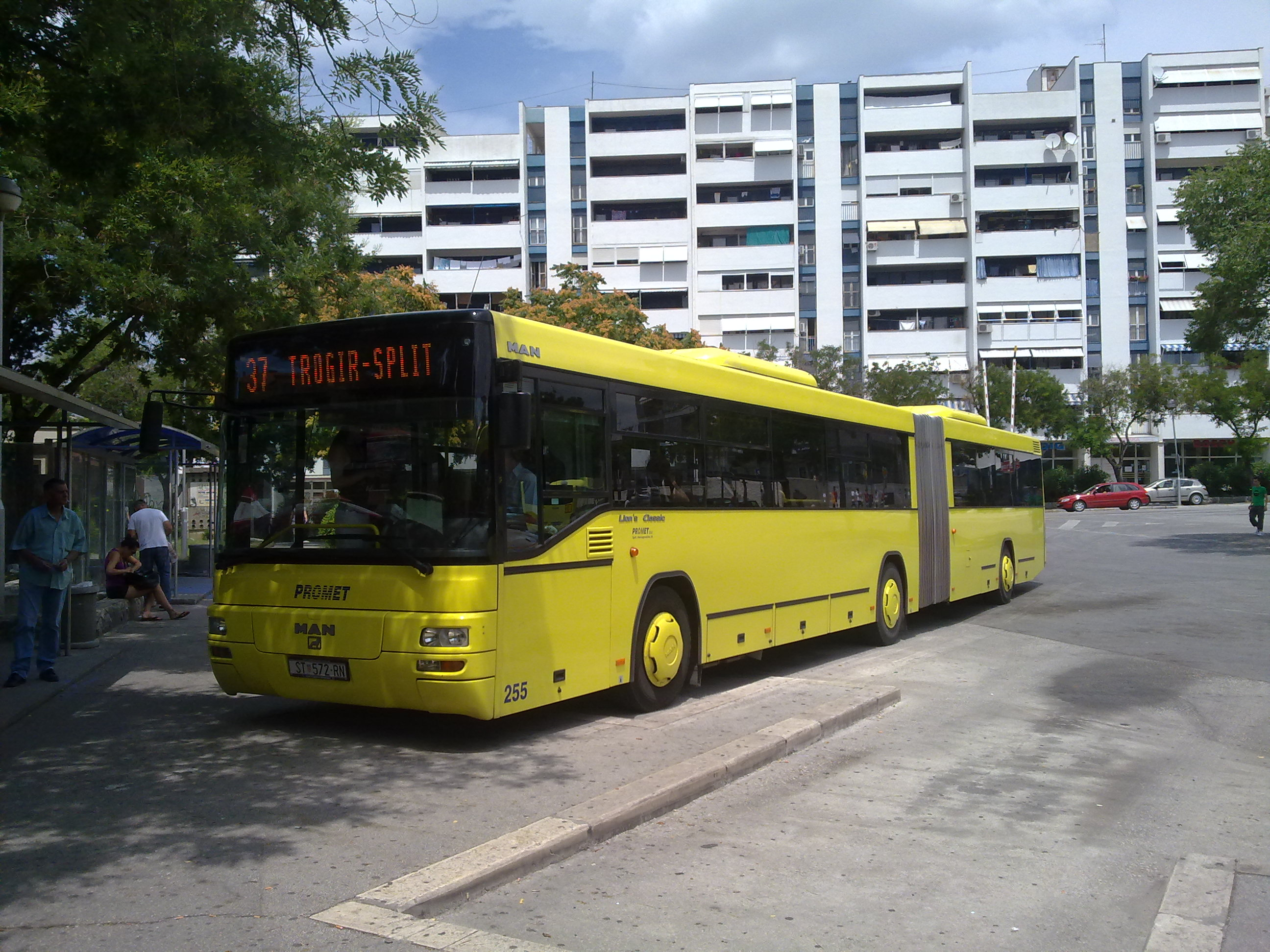 MAN Lion's Classic G on line 37 in Split, Croatia